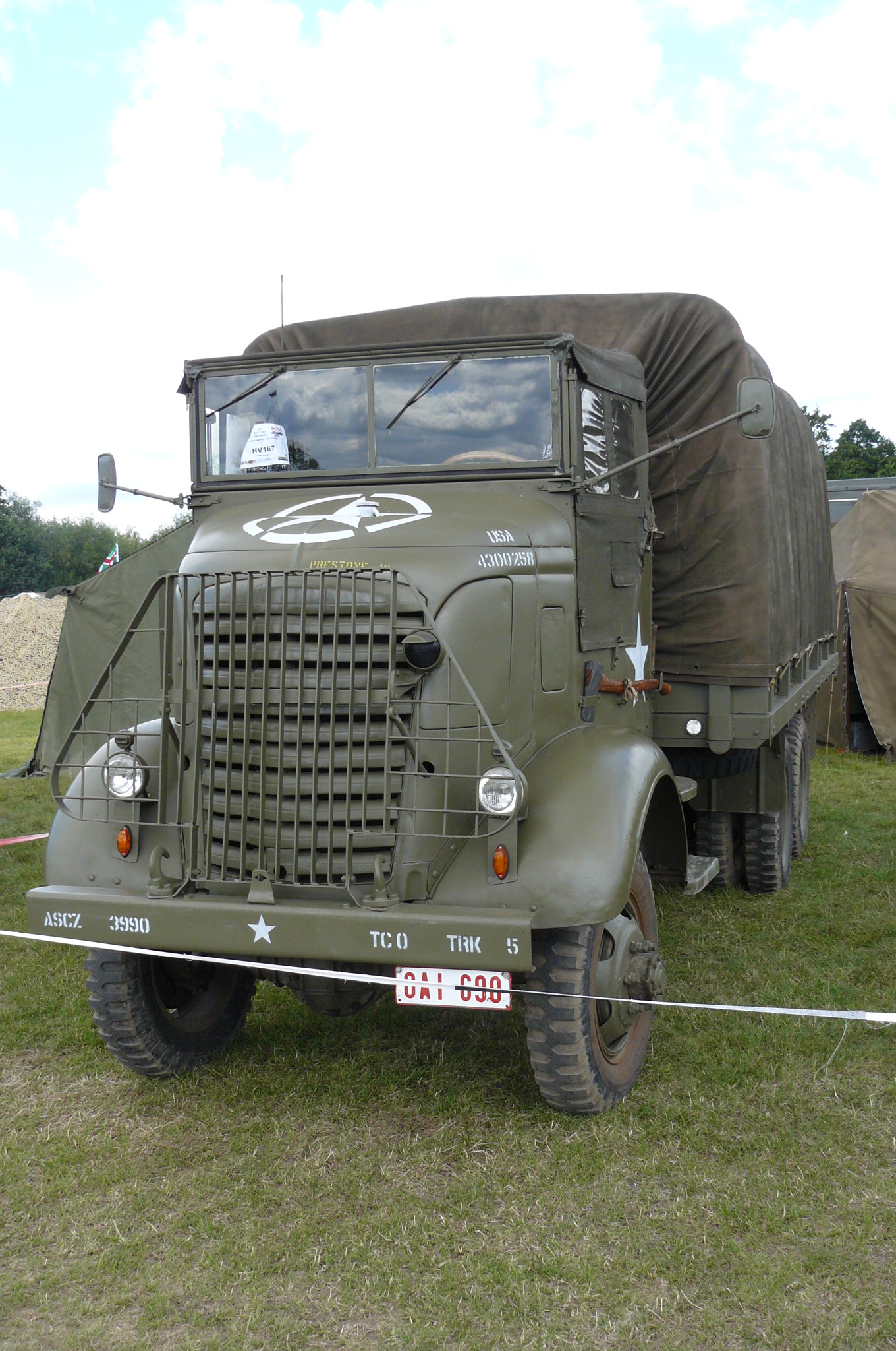 GMC AFKWX. Seen at War & Peace show, England. Date July 2011